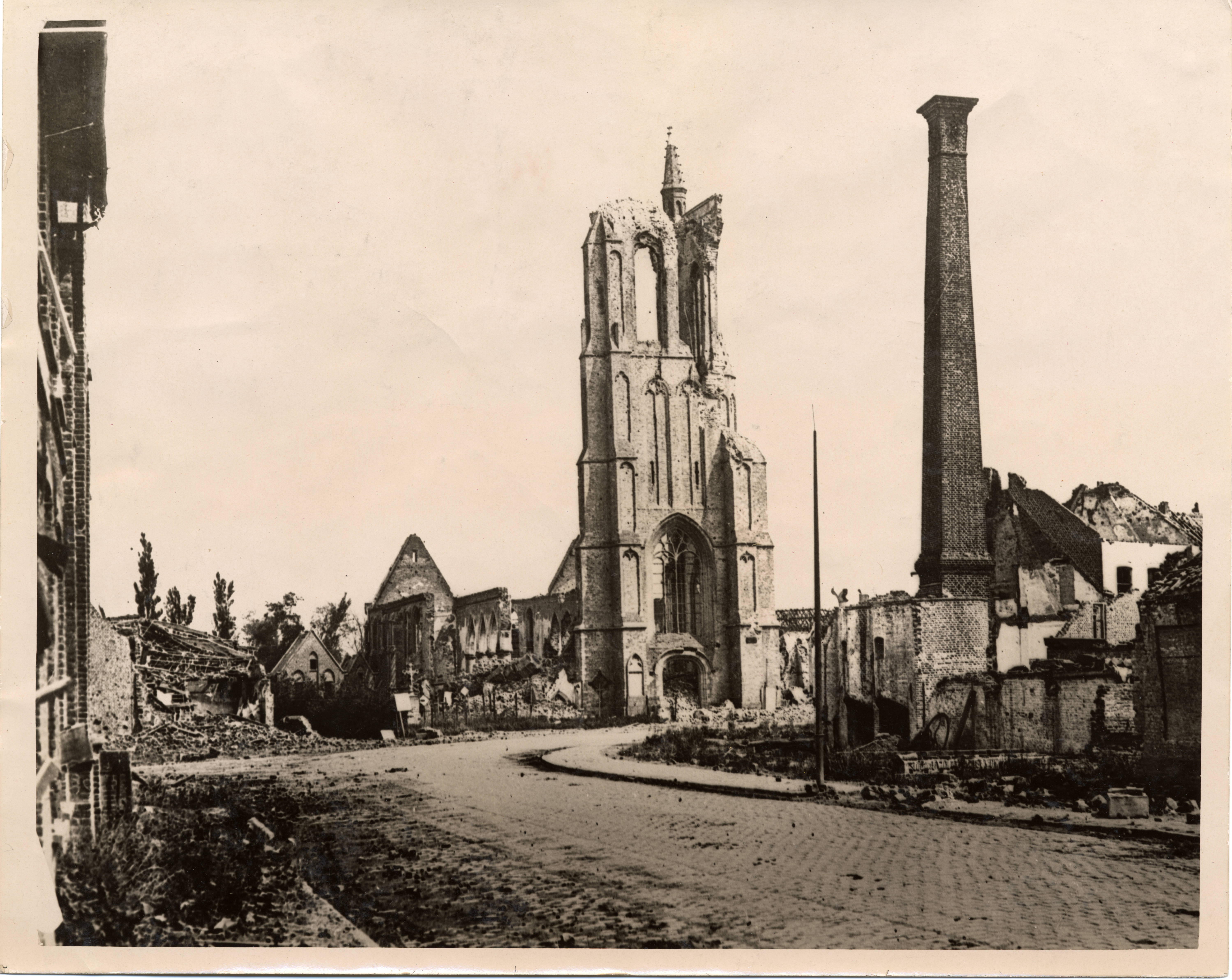 Item is a photograph from an album of World War One-related photographs in the William Okell Holden Dodds fonds. Brigadier General Dodds joined the Canadian Expeditionary Force in 1914 and was commanding officer of the 5th Canadian Division Artillery and served in France from 1917-1918.